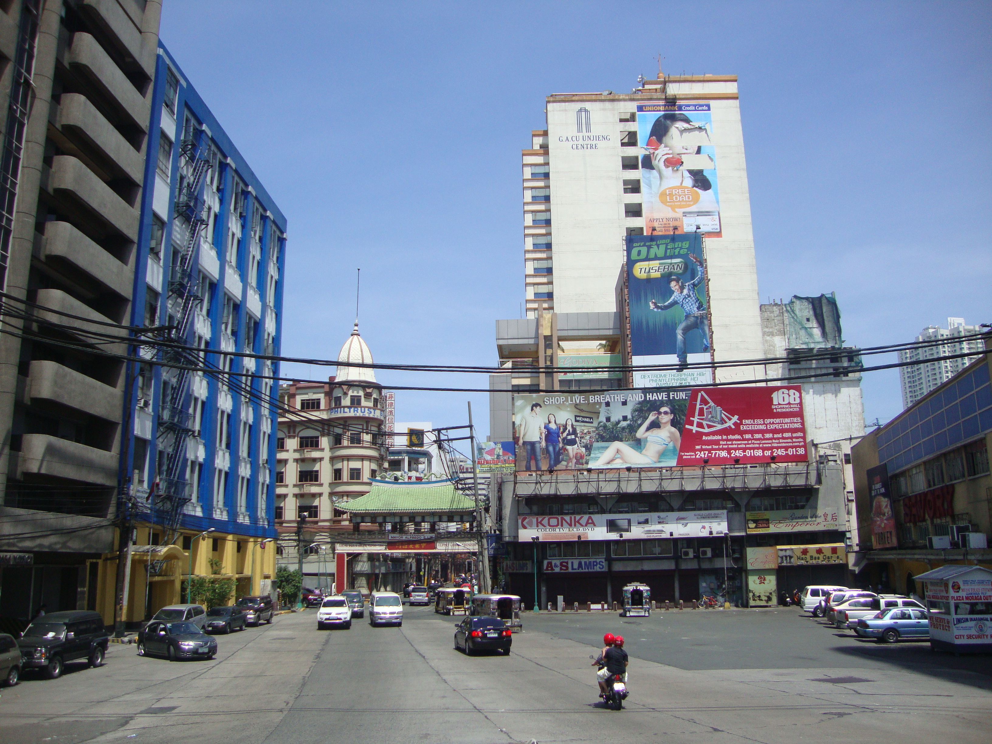 Plaza moraga in binondo, manila (near jones bridge)